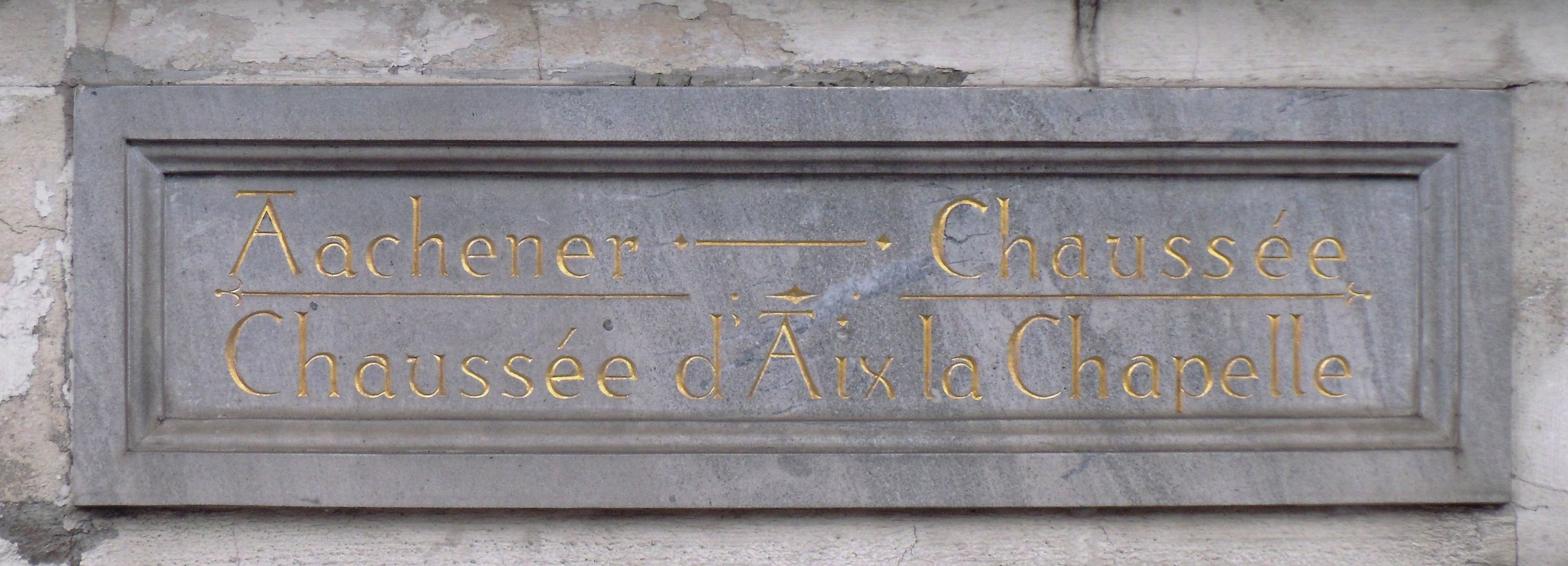 Tafel an der Mauer zum Melaten-Friedhof mit dem Straßennamen auf Französisch